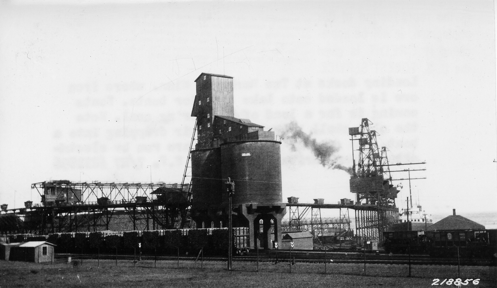 Scope and content: Original caption: Loading docks at Two Harbors, Minn where iron ore is loaded onto Lake Superior boats. Boats coming in for a load of iron bring coal. Note the clam-shell bucket in the air dropping into a boat. The cars on the trestle are run by electricity without drivers. General notes: The original caption is incorrect. This is the Duluth and Iron Range Railroad coal facility at Agate Bay in Two Harbors Minnesota. The boat is having coal unloaded. The tram cars are on a continuous cable drive system that loops them around to the bridge crane that covers the storage field. The storage field could hold 150,000 tons of mine run coal. The concrete towers are a crushing and holding facility. The large locomotives had worm gear coal feeders and could not handle mine run coal. Each tower could hold 10,000 tons of crushed coal. I am sure the Forest Service has interest in this photograph because of the volume of pulpwood logs on flat cars next to the coal towers.(Mel Sando Lake County Historical Society)